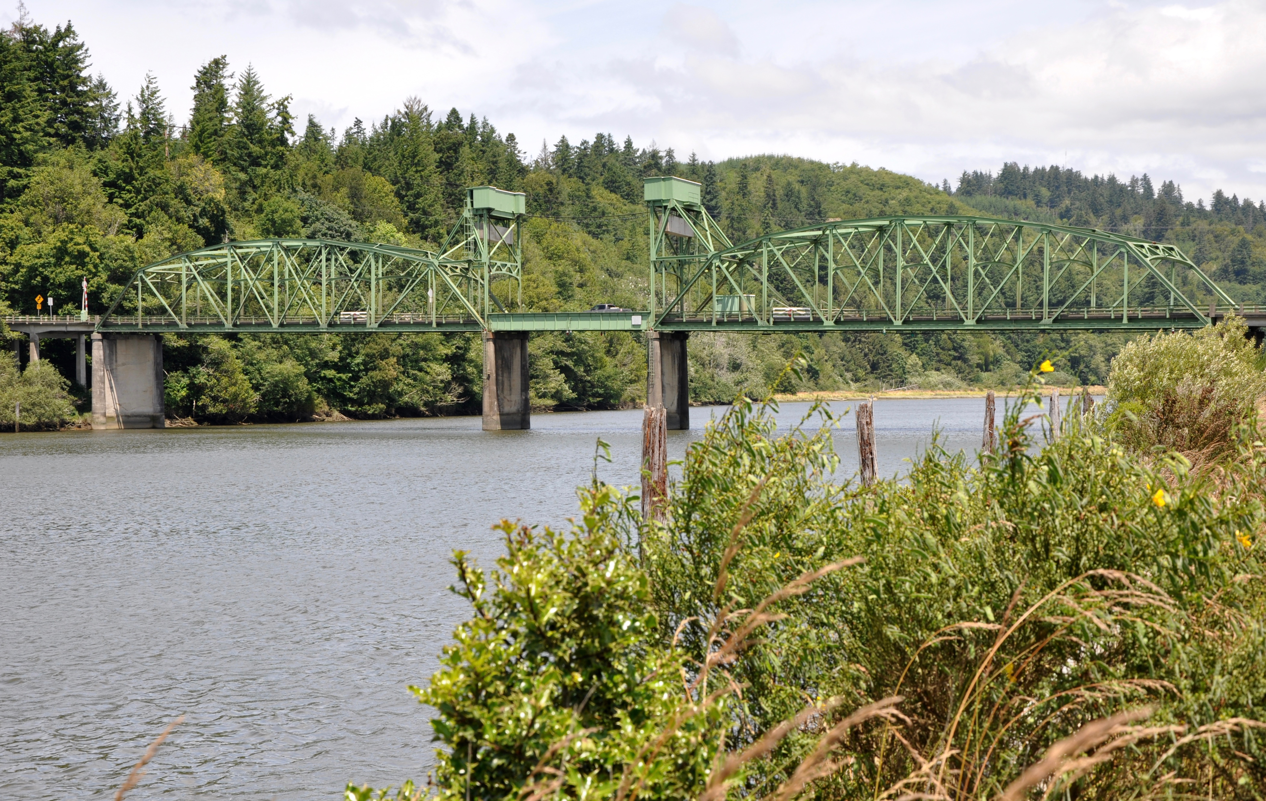 The Chandler Bridge, a 1952 vertical-lift bridge, spanning the Coos River near Coos Bay, in the U.S. state of Oregon. The bridge carries Oregon Route 241 over the river.